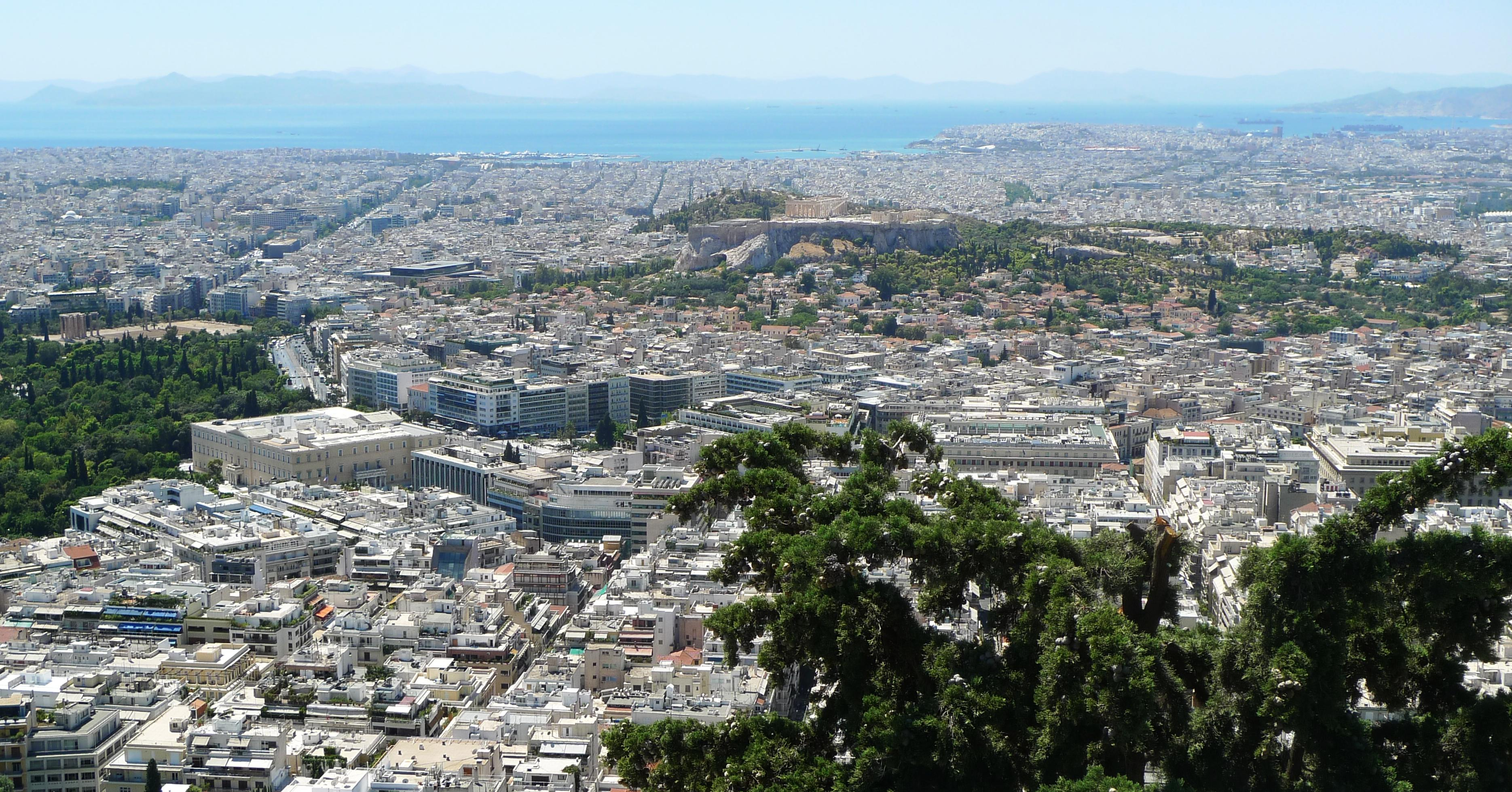 A view of Athens from mount Lycabettus.